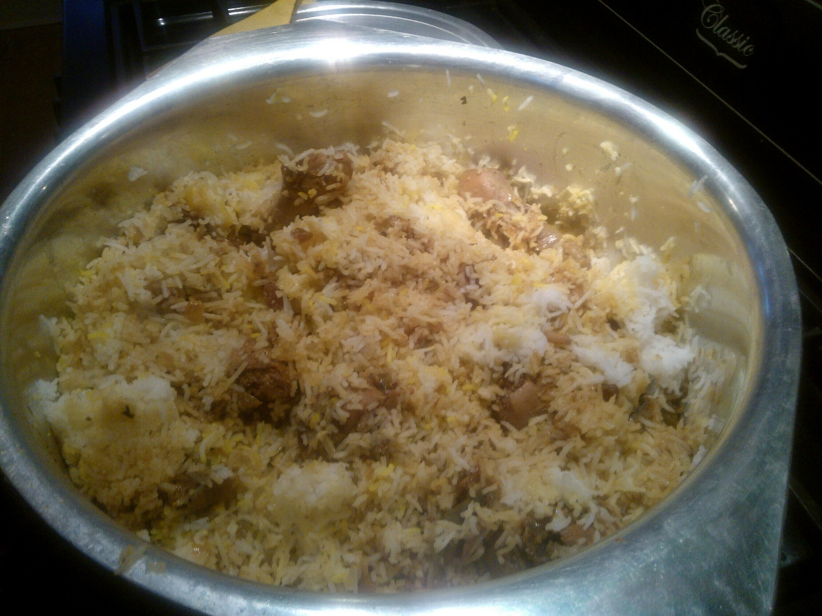 Byriani IN Pakistani style